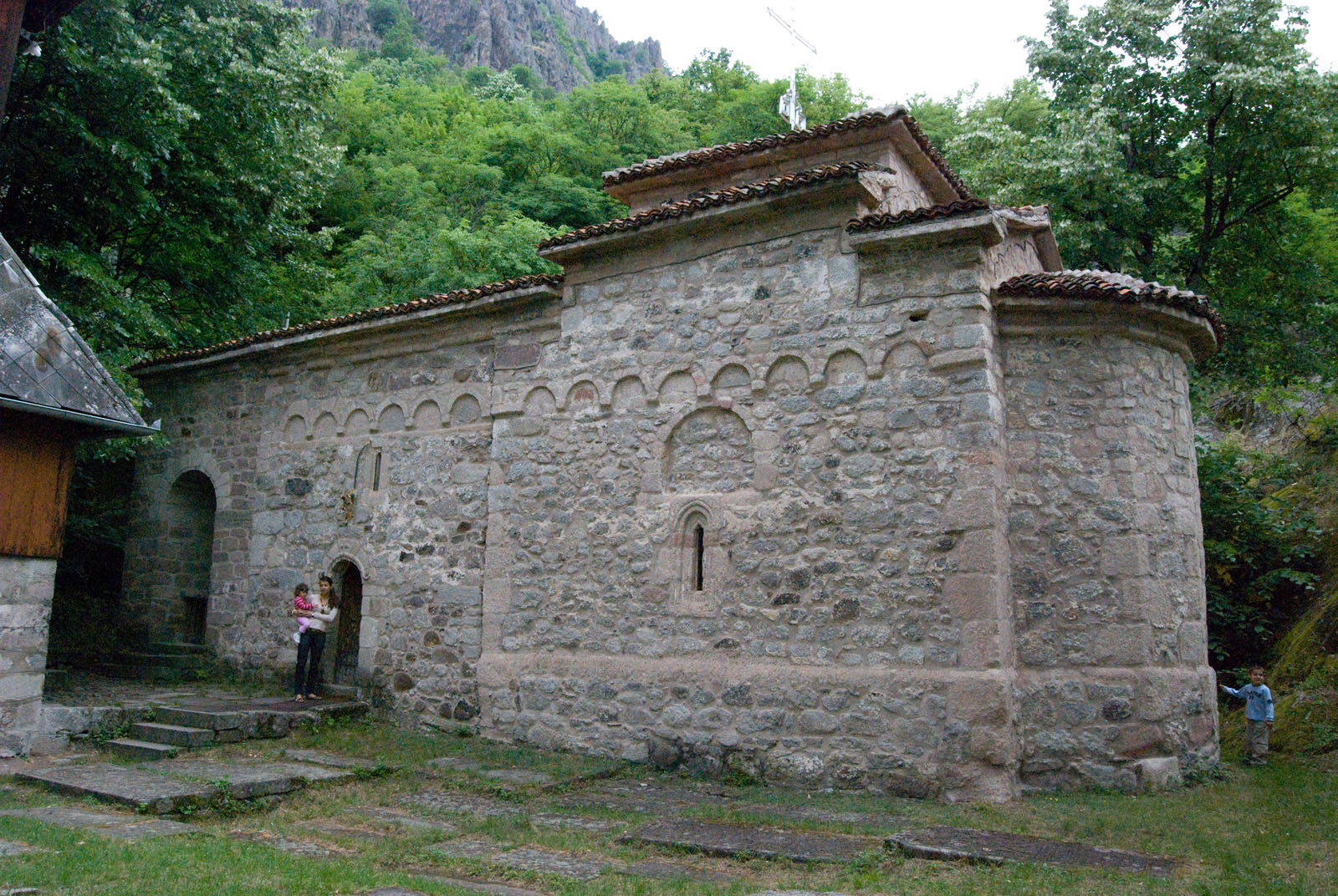 Church in Borač, near Knić, Serbia